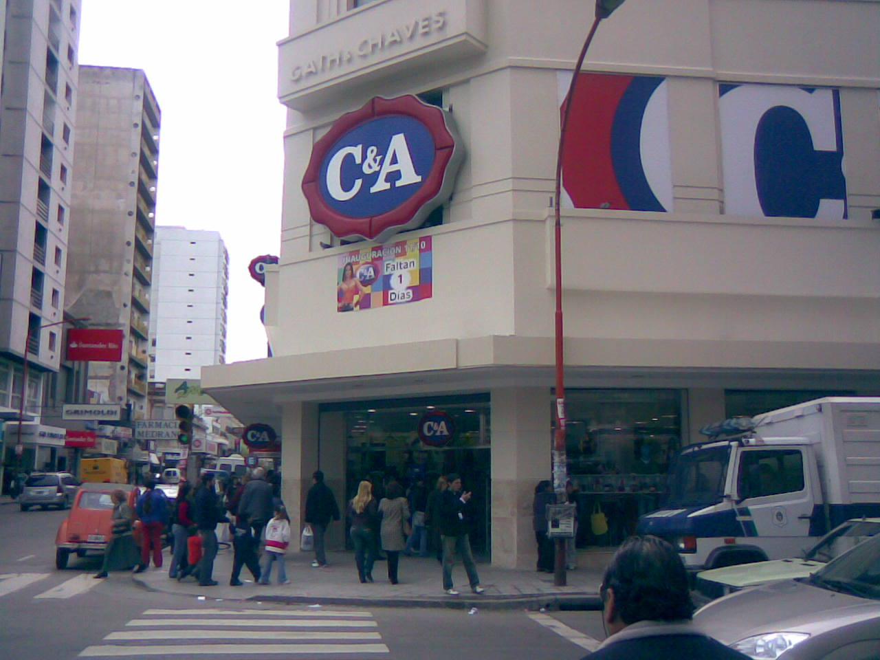 A C&A store in Bahía Blanca, Argentina.C&A - BB - Argentina